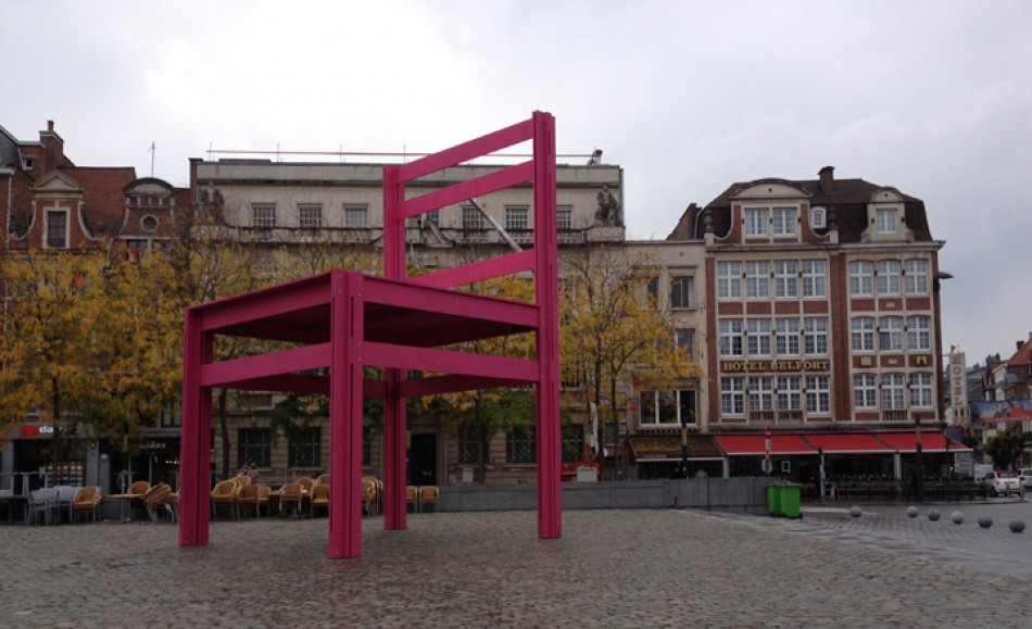 During the 2012 international Design Biennal Interieur Courtray (Kortrijk), a large scale model of a chair was placed at the central city square, Grand Place.